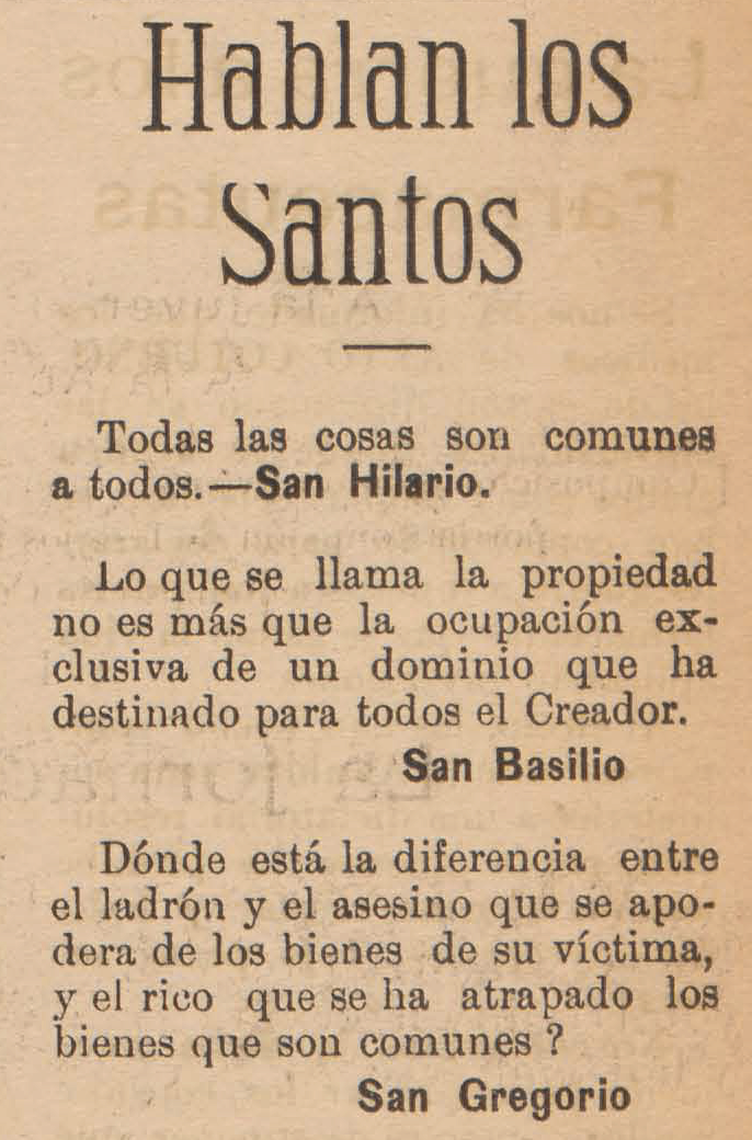 Sección "Hablan Los Santos"